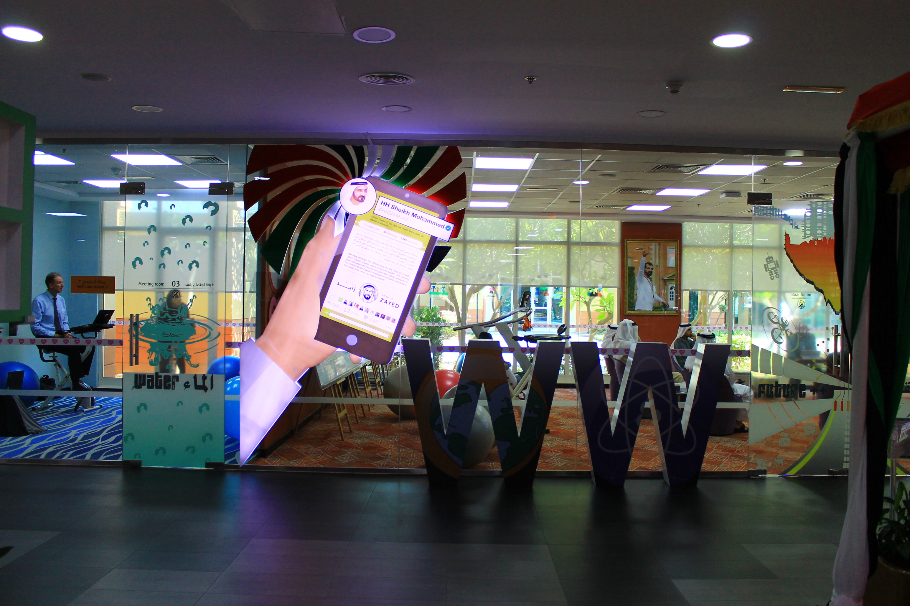 Open work space and colorful meeting rooms